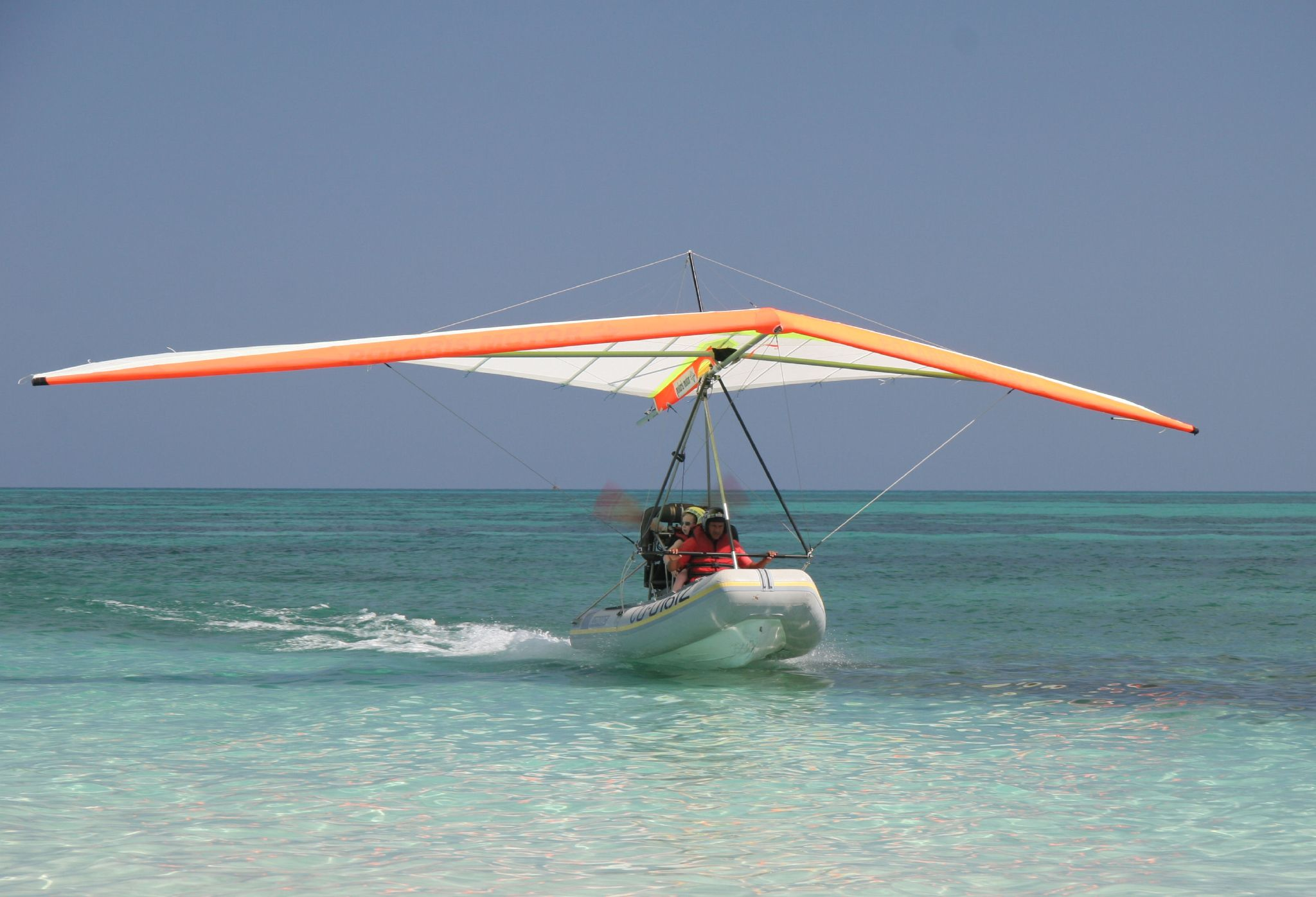 Ultralight trike fixed to an inflatable dingy. Varadero, Cuba.